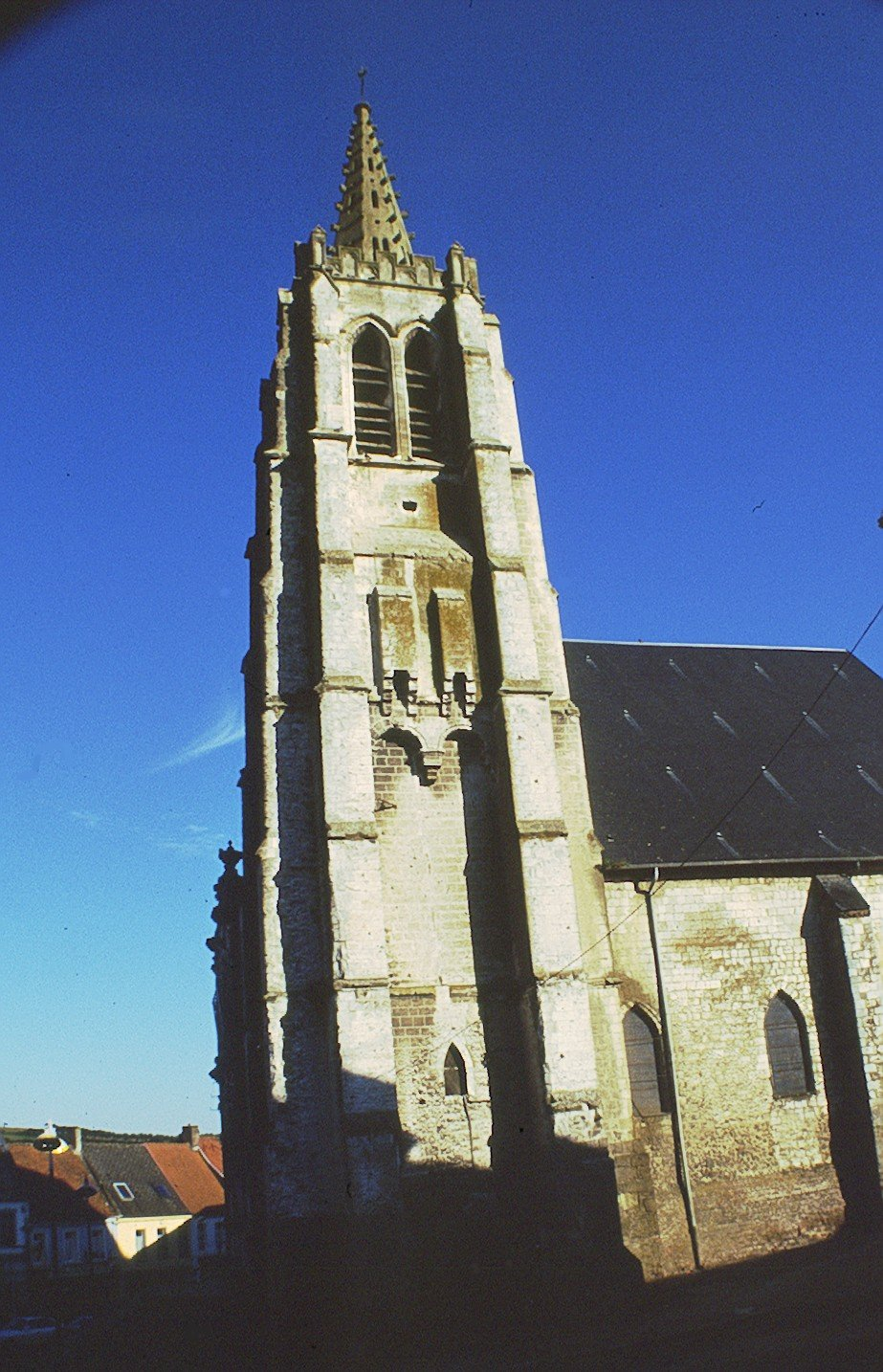 Church of Fauquembergues, France.